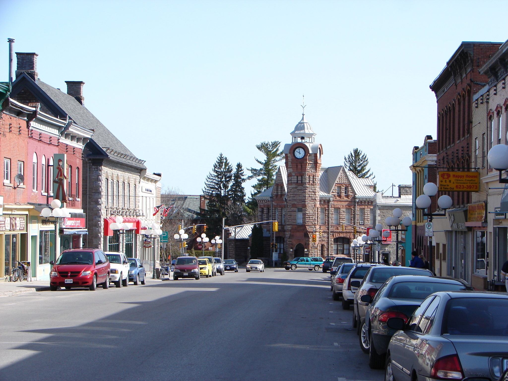 John Street, Arnprior, Ontario